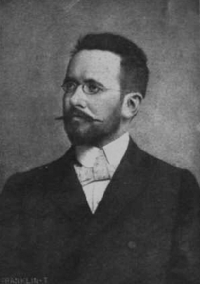 Portrait of Ferenc Tangl